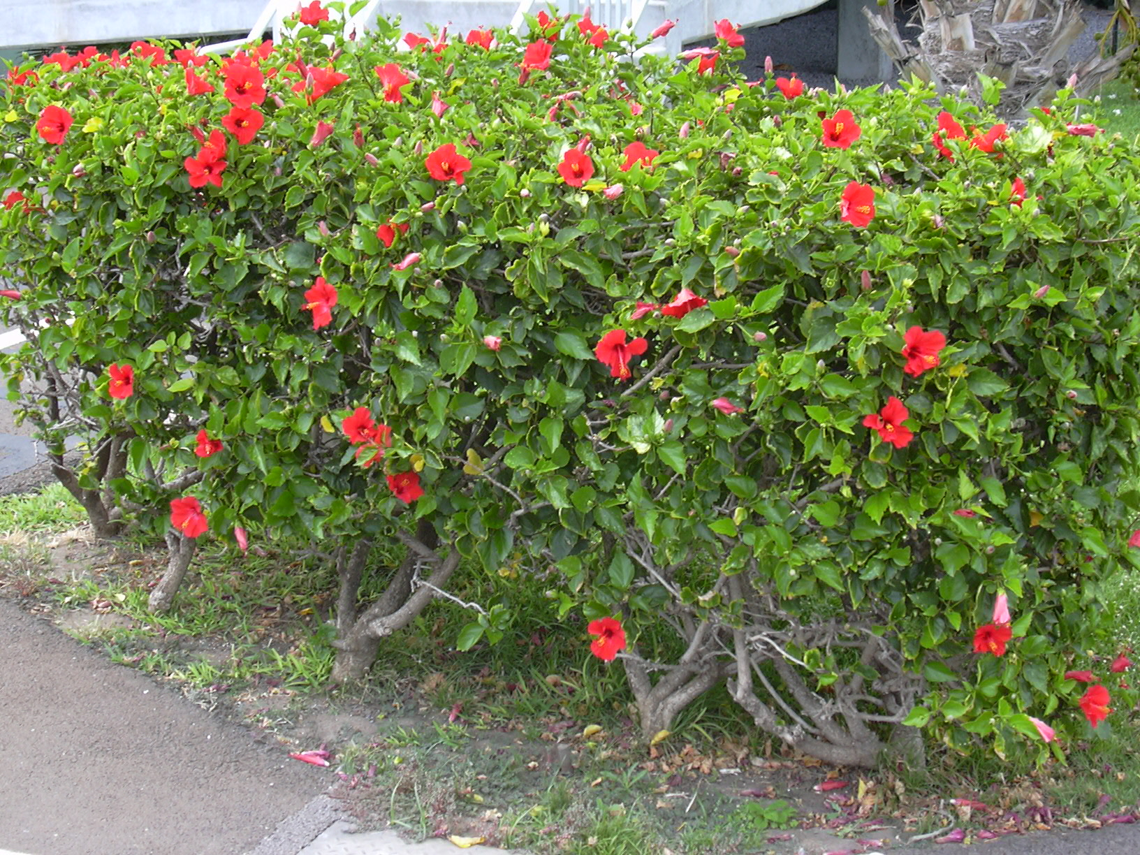 Hibiscus rosa-sinensis (hedge). Location: Maui, Kahului